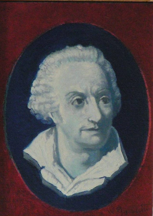 Work of the Italian painter William Girometti, portrait of Vittorio Alfieri, 1985, oil on wood, cm. 18x24 - owned by his daughter.